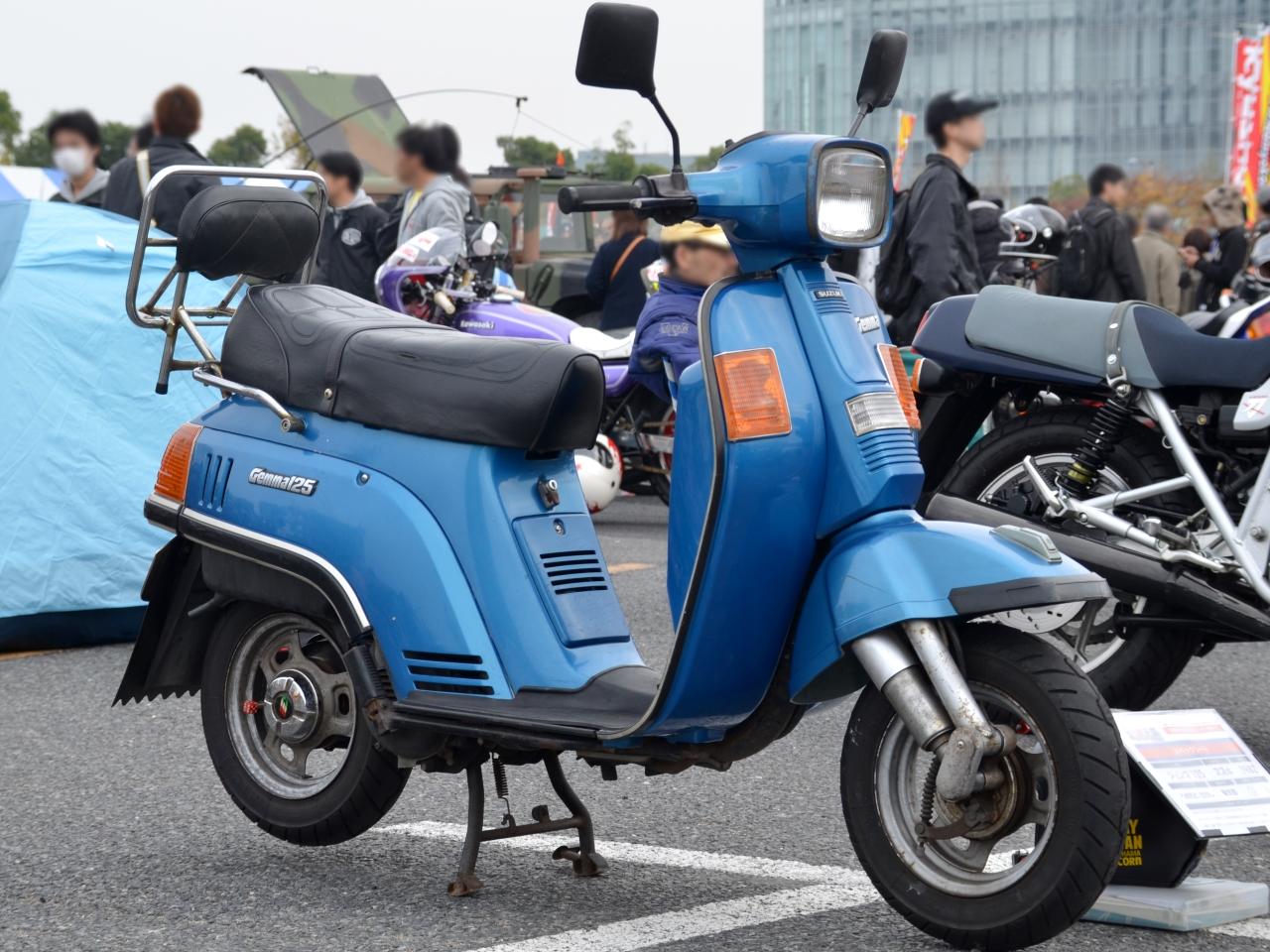 Suzuki Gemma 125